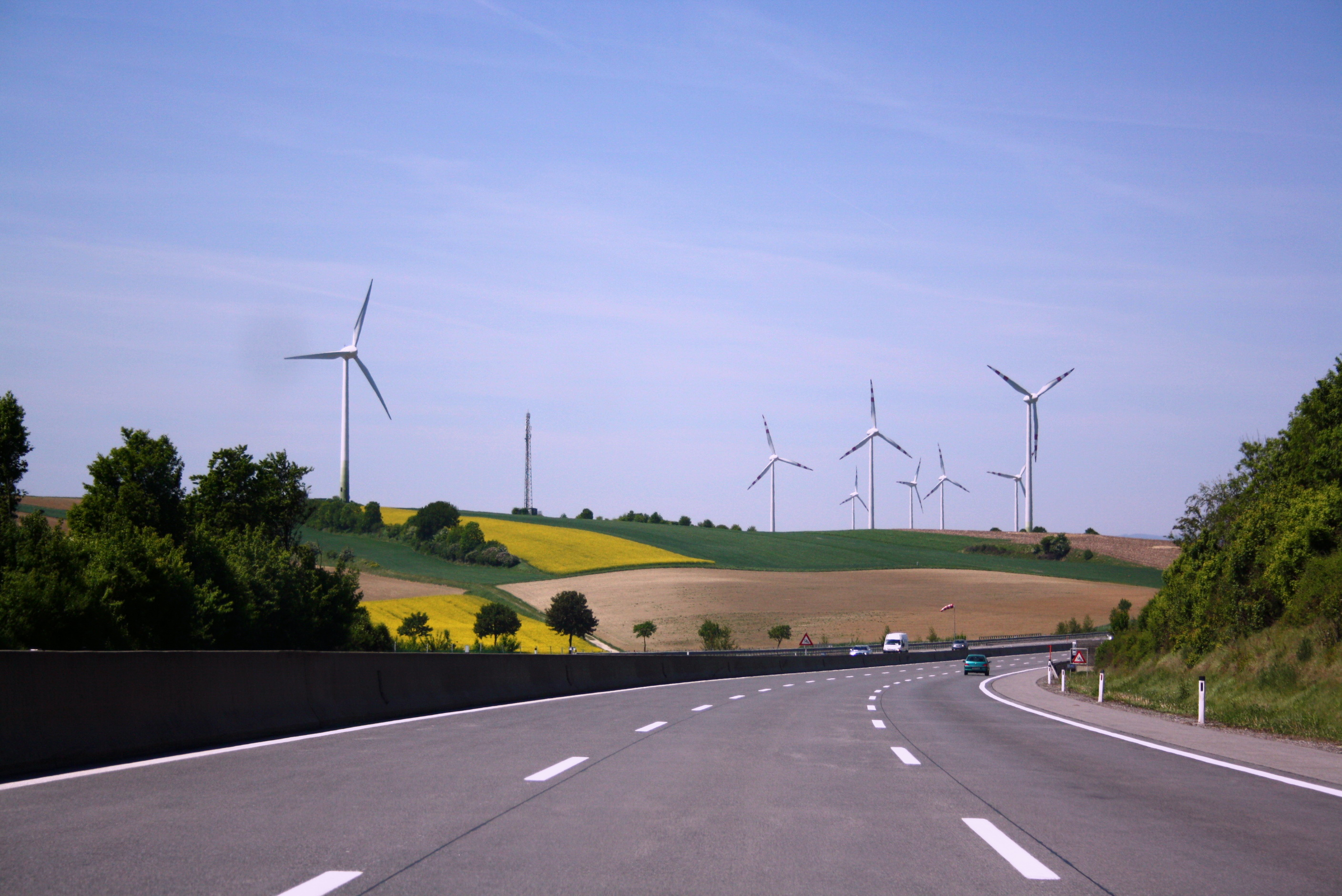 Wind turbines on the A8 motorway. Rapeseed fields in the landscape.